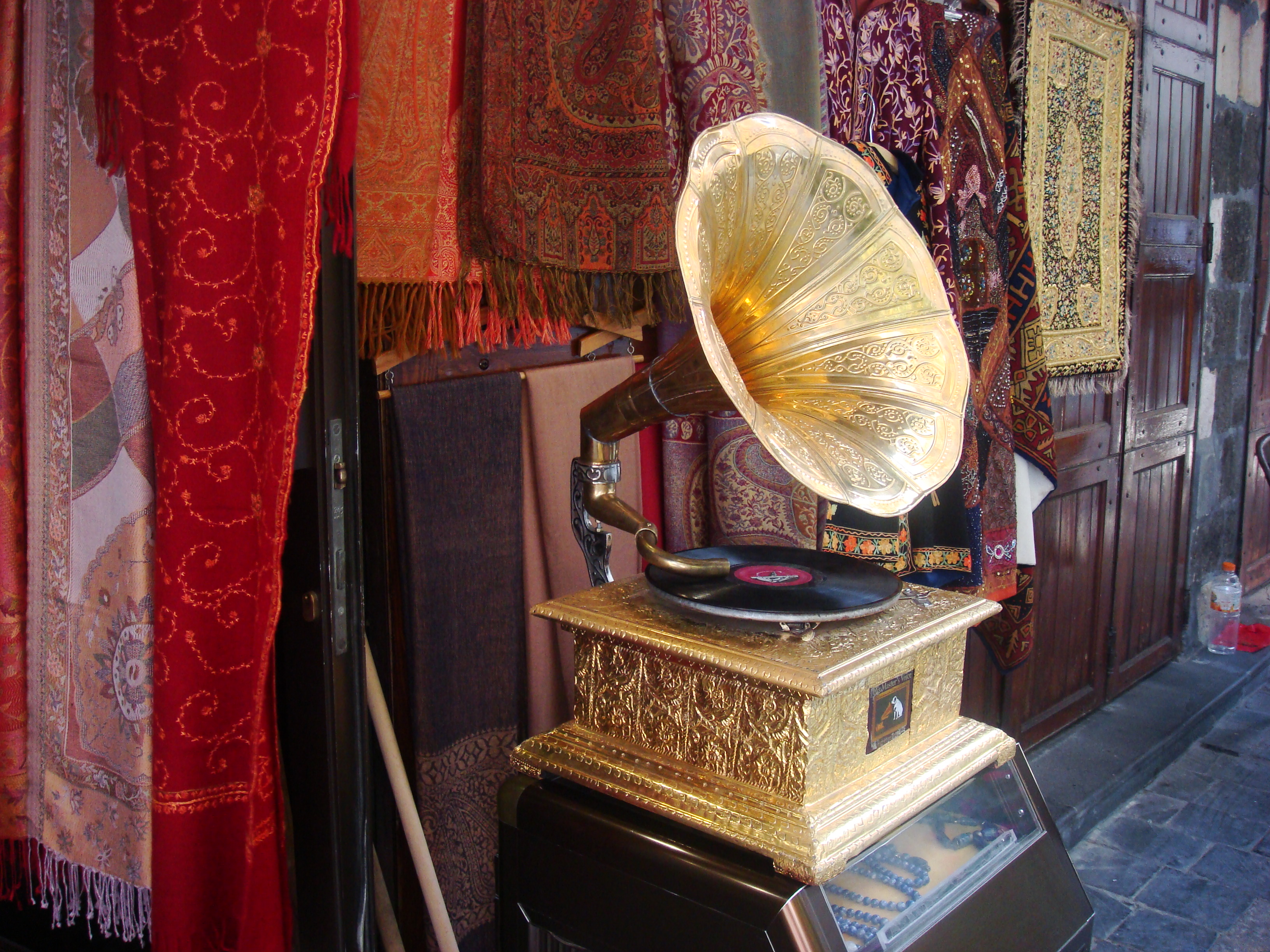 Reproduction of an antique phonograph in Damascus, Syria